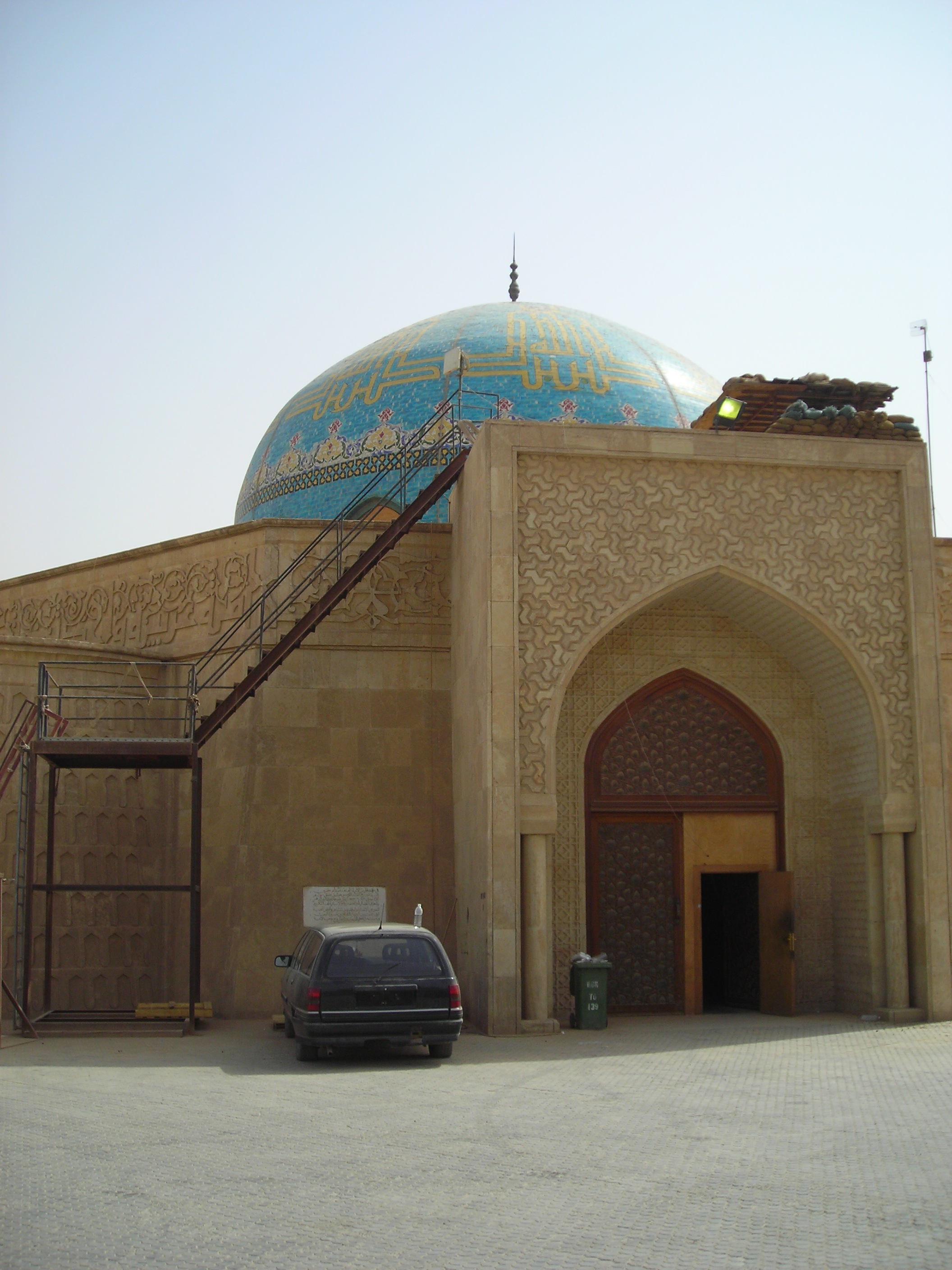 Supposed tomb of Michel Aflaq, Baghdad, Iraq